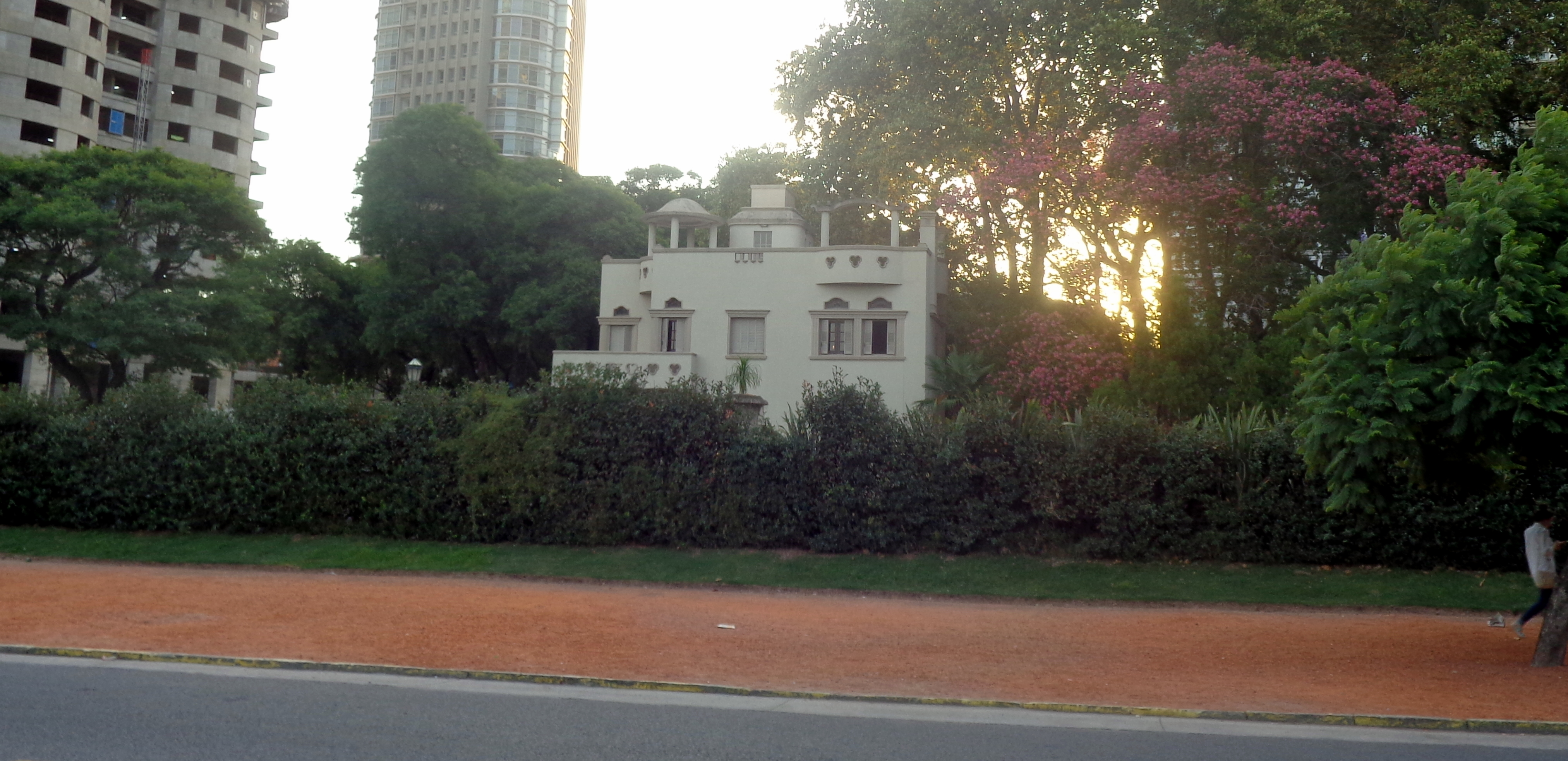 Jewish Temple "Chabad" on Azucena Villaflor de Vicenti Street, in Puerto Madero, Buenos Aires, Argentina. Designed by Andrés Kálnay in the late 1920s for the Red Cross.